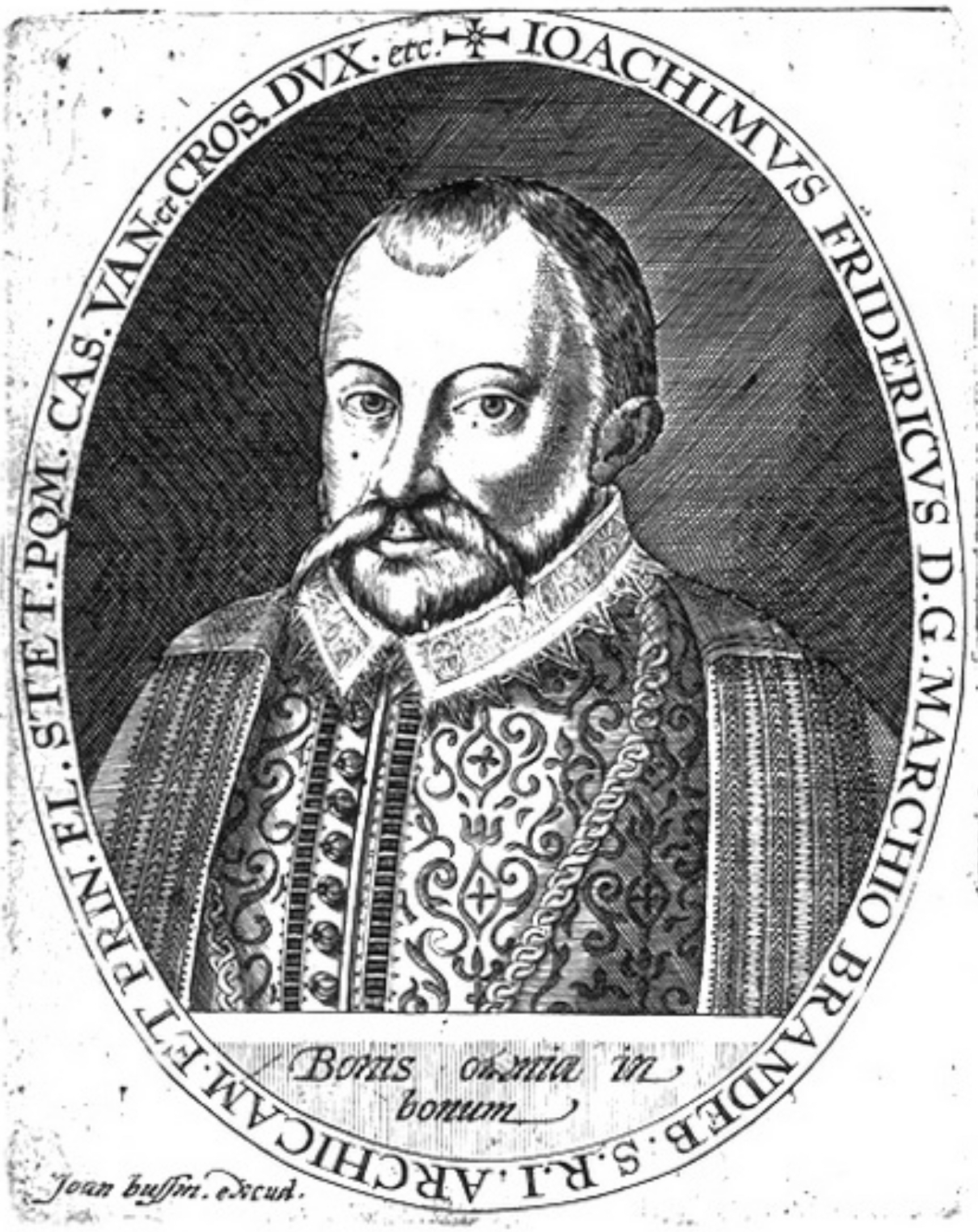 Joachim Friedrich (* 1546; † 1608), Prince-Elector of Brandenburg and regent of Prussia